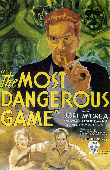 Low-resolution image of poster for the American motion picture The Most Dangerous Game (1932).